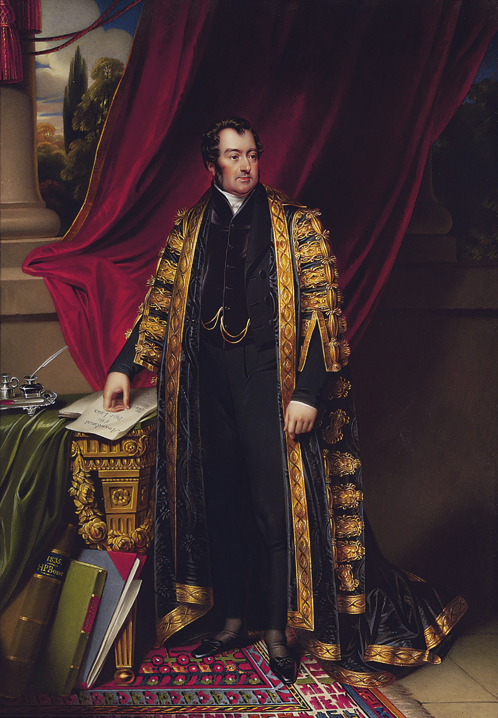 John Charles Spencer, Viscount Althorp, 3rd Earl Spencer (1782-1845), as Chancellor of the Exchequer, full length in Chancellor's robes over black mourning suit, standing beside a George II giltwood console table from Spencer House draped with green cloth, his right hand resting on a document entitled 'Amendment of the Poor Laws', large leather-bound books and folio propped against table leg, inkwell, salt cellar and quill on silver stand on table, red curtain, pillar and curtain interior; landscape background signed and dated on the spine of the largest leather-bound book '1835. HPBone' (lower left), and signed, dated and fully inscribed on the counter-enamel 'John Charles Earl Spencer Viscount Althorp, later Chancellor of the Exchequer London Feby. 1835 Painted from Life by Henry Pierce Bone Enamel Painter to Her Majesty and their Royal Highnesses the Duchess of Kent & Princess Victoria' Portrait painted from life